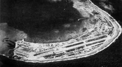 Aerial view of the U.S. Naval Air Station Kwajalein, Marshall Islands, in 1949.